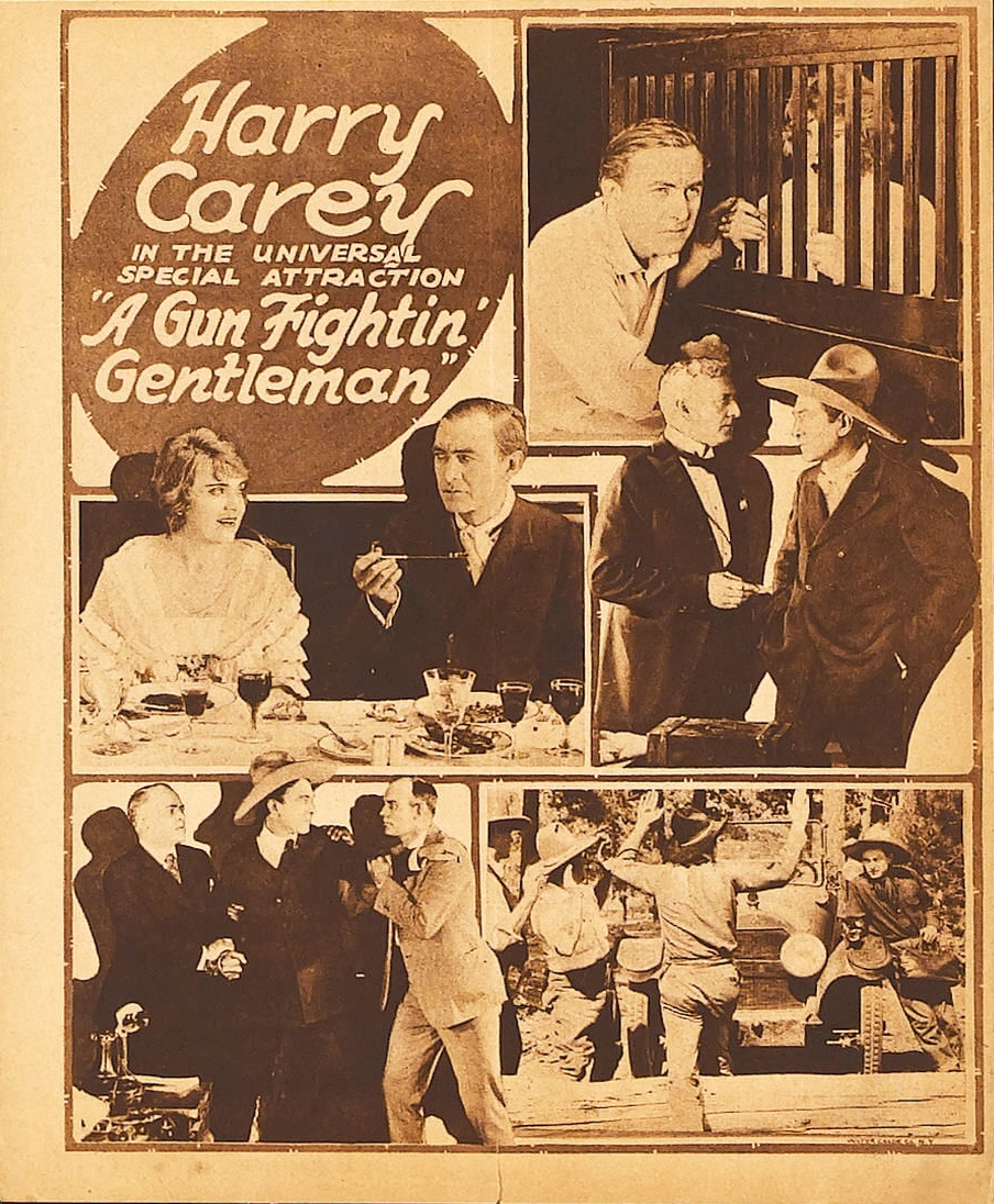 A public domain movie poster for the American public domain western film A Gun Fightin' Gentleman (1919).